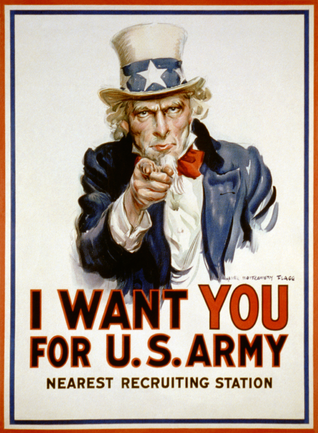 Poster shows Uncle Sam pointing his finger at the viewer in order to recruit soldiers for the American Army during World War I. The printed phrase "Nearest recruiting station" has a blank space below to add the address for enlisting.